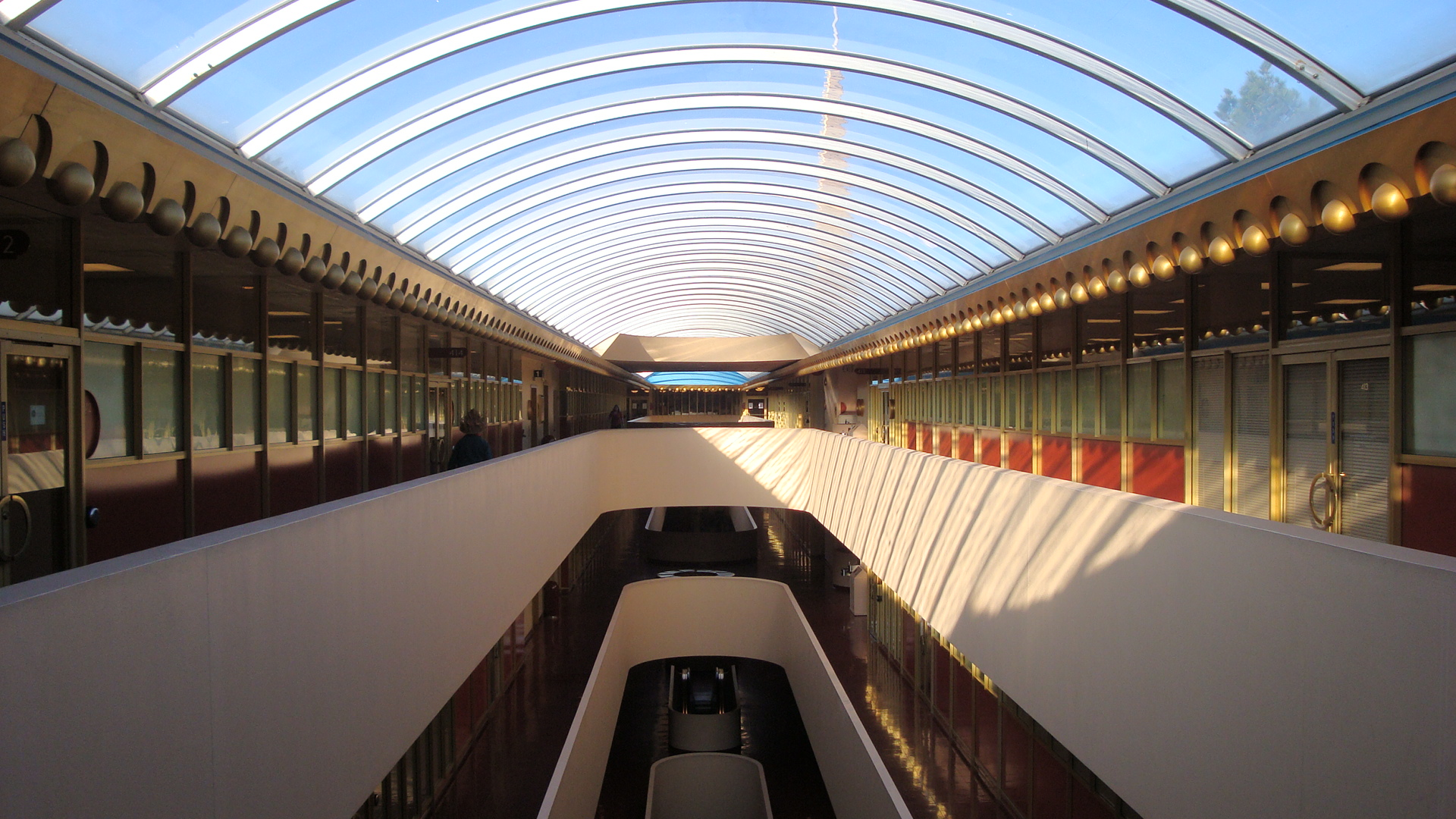 Marin Civic Center interior, designed by Frank Lloyd Wright